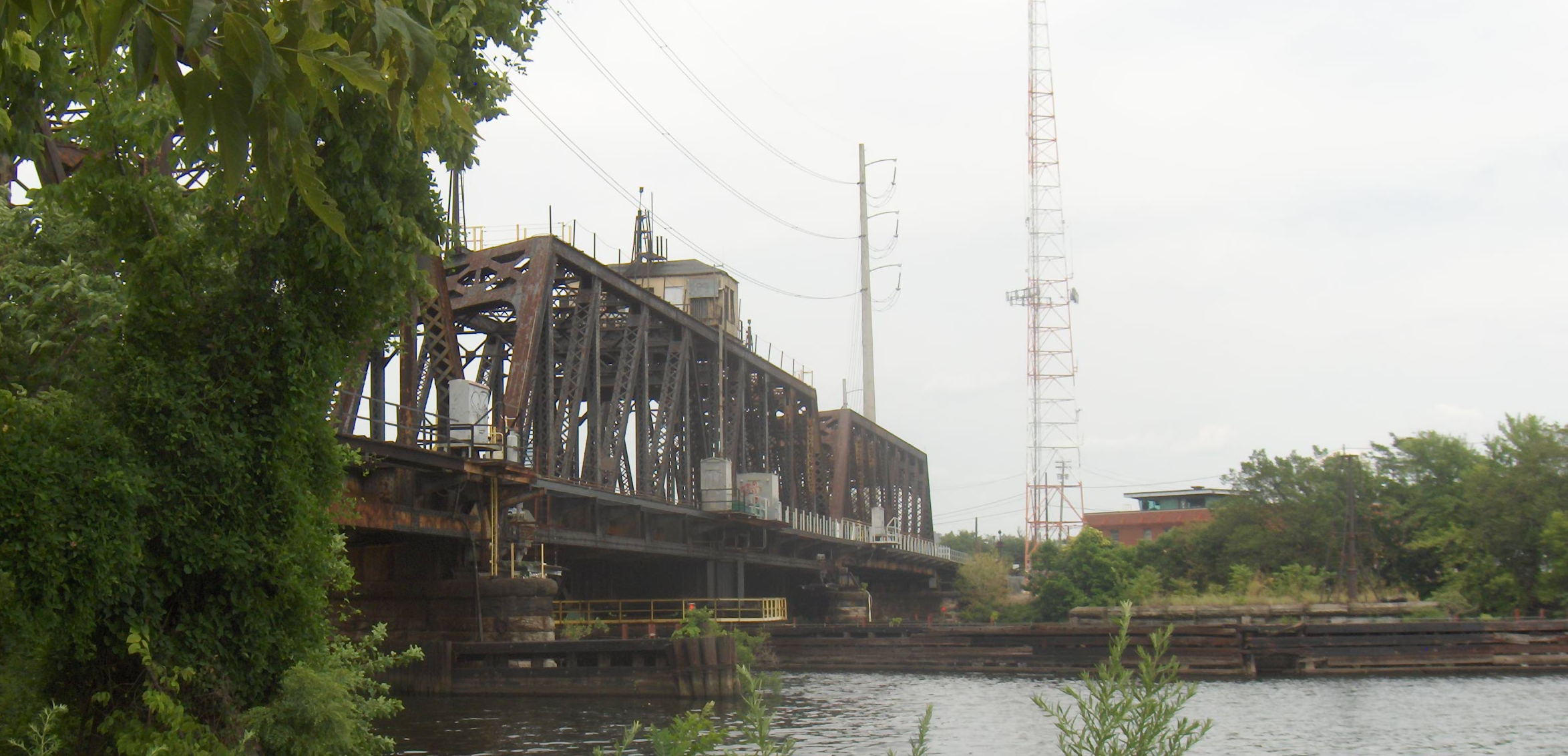 The Baltimore and Ohio Railroad Bridge, built in the late 19th or early 20th century as a two track, swing bridge across the Schuylkill River in the Grays Ferry neighborhood in Philadelphia, Pennsylvania. Now a CSX Philadelphia Subdivision bridge. View from the west river bank, looking northeast.